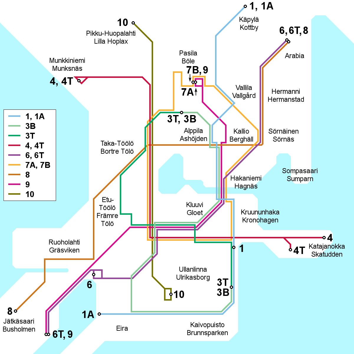 Map of the Helsinki tram network, current as of 30 March 2009. Place names in Finnish and Swedish. This file is being kept up to date (or at least attempted to) by Kjet.